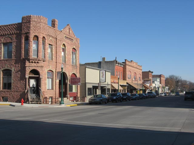 4th Street in Downtown Dell Rapids, South Dakota, USA.